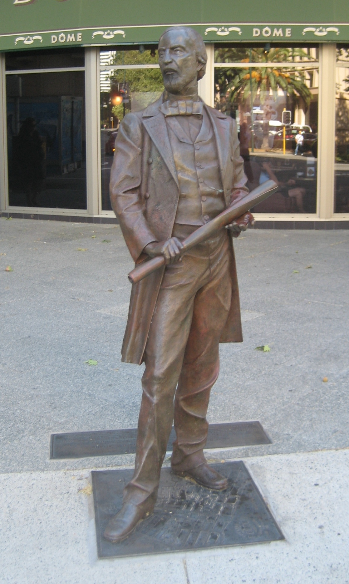 Public Art - John Septimus Roe, Perth, Western Australia